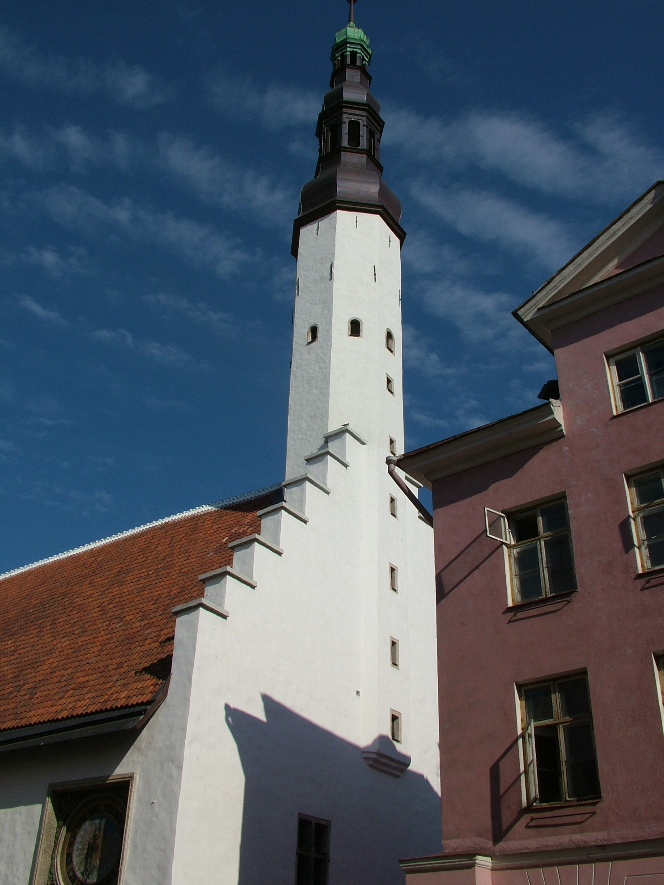 Church of the Holy Spirit (Puhavaimu Kirik) in Tallinn, Estonia.